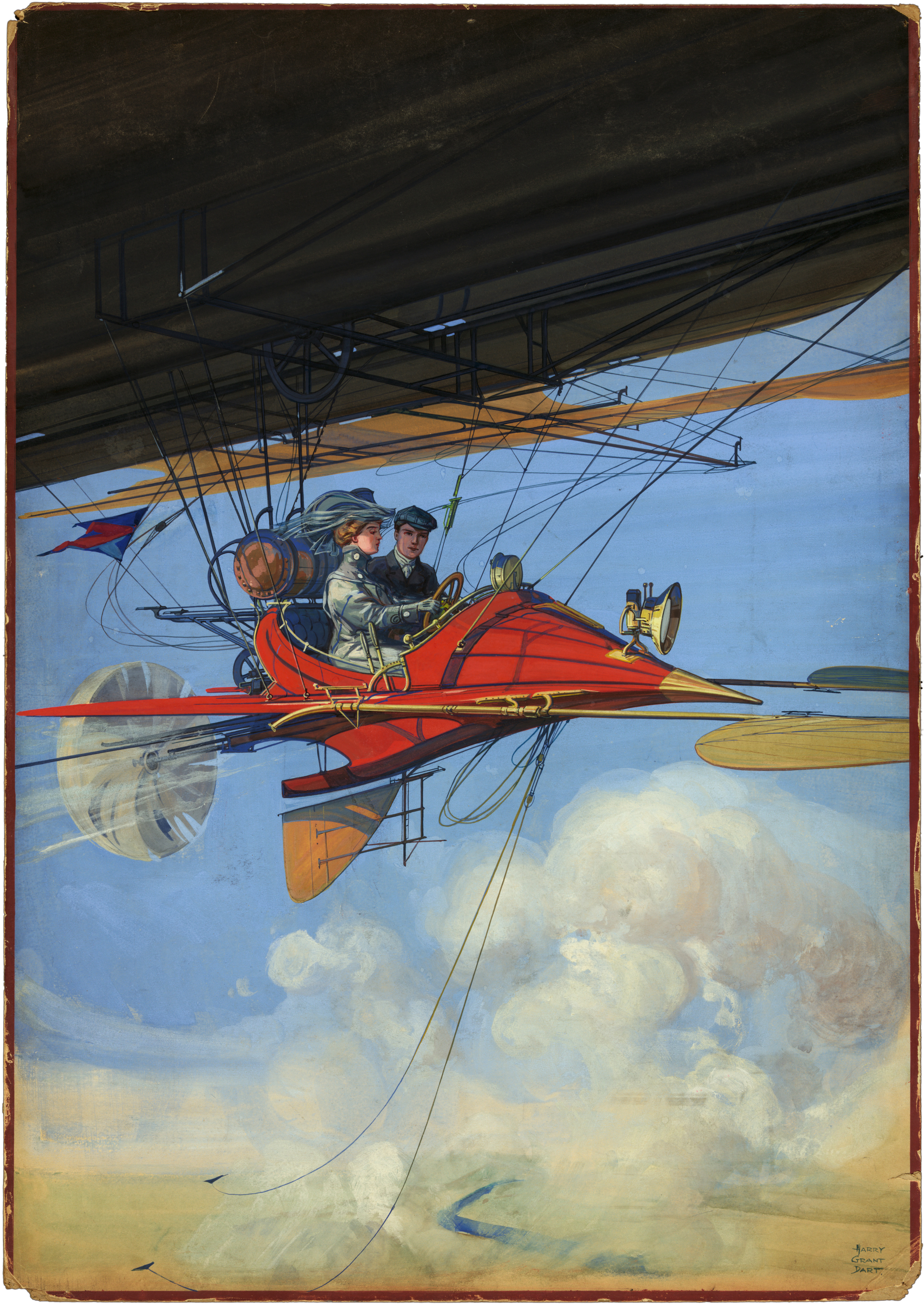 Drawing shows a woman at the wheel of a futuristic aircraft. A man sits beside her. The drawing appeared on the cover of "All Story" magazine.